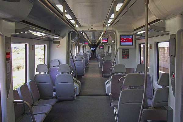 Inner view of a new train of Cercanías RENFE in Spain. Pic taken by me on April the 4th, 2005.